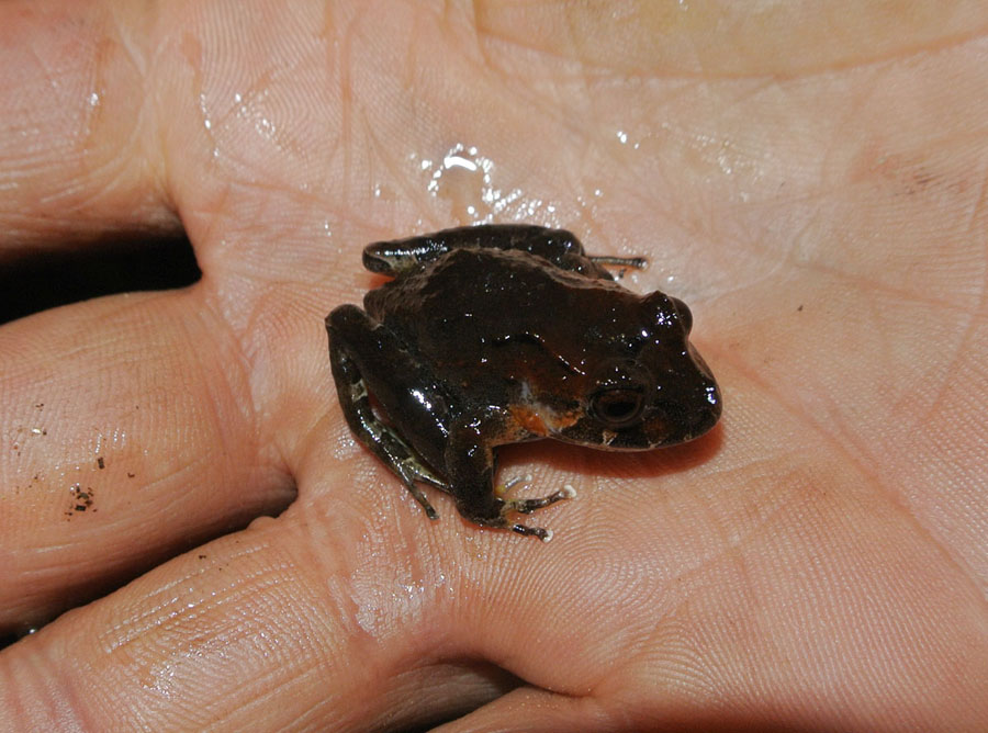 Found in a tank bromeliad on the El Dorado Reserve, northeastern Colombia. In context at